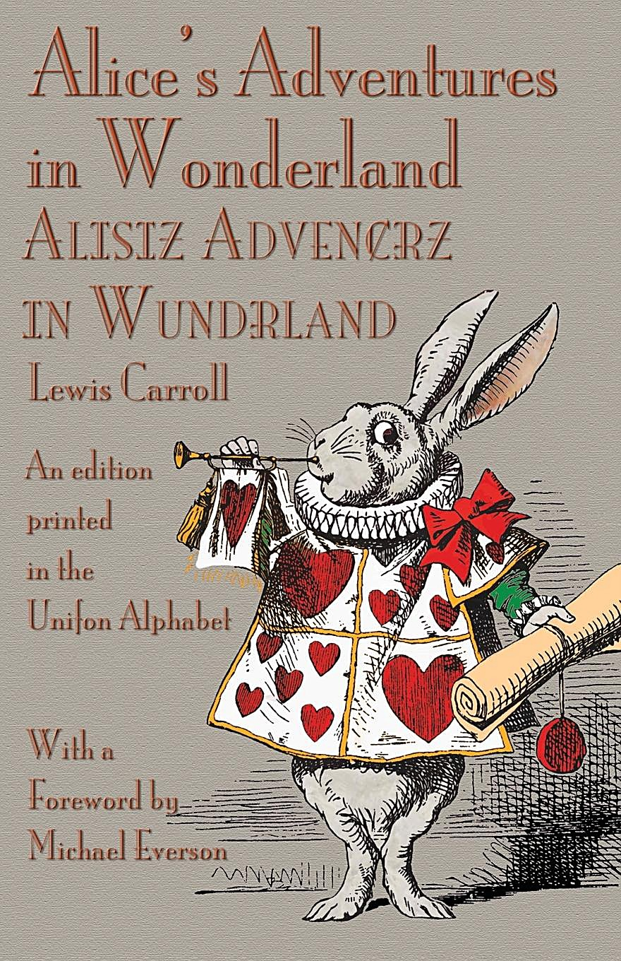 Lewis Carroll: Alice's Adventures in Wonderland, Cathair na Mart 2014 - transcription in the Unifon Alphabet - front cover